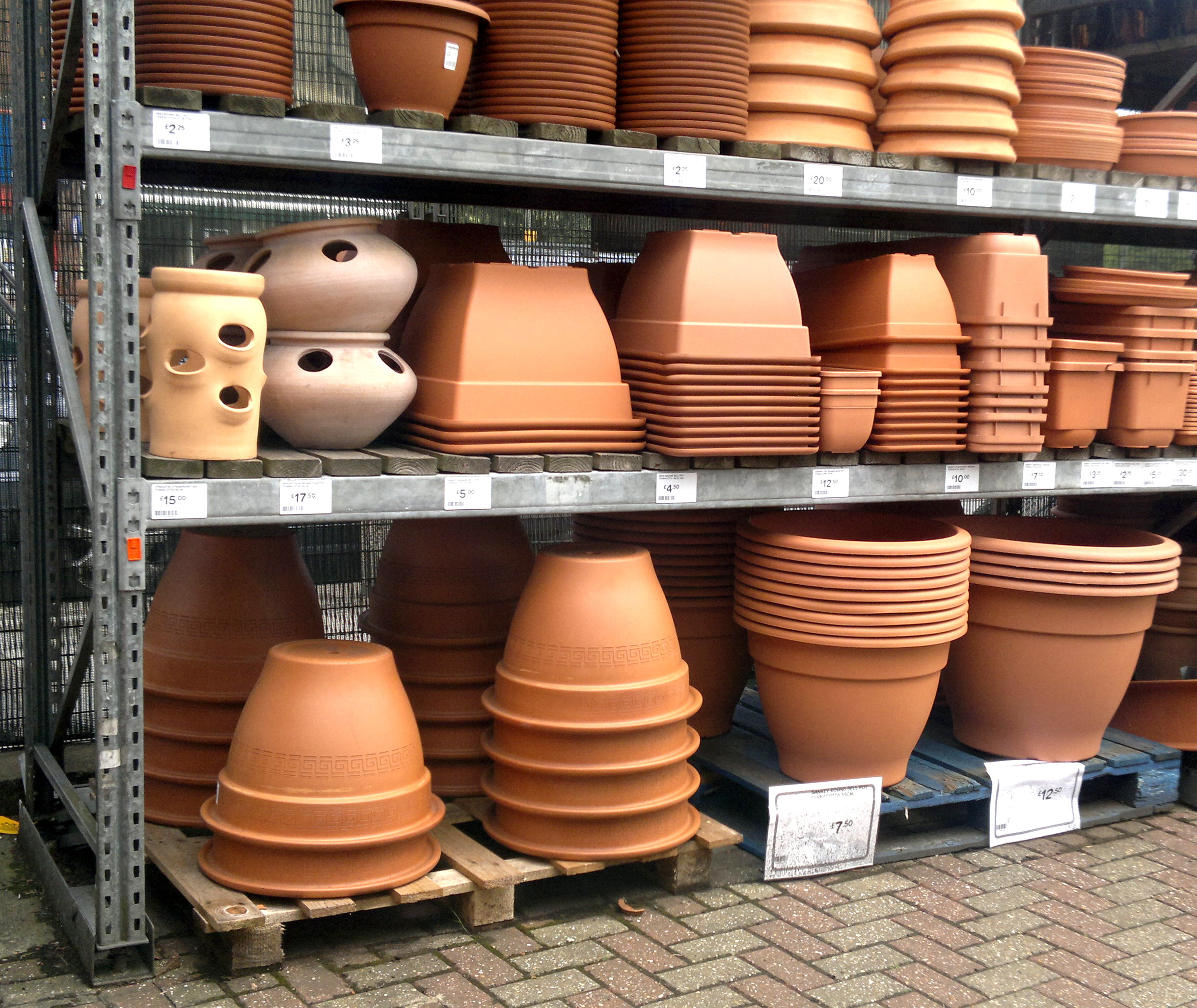 Pots at a garden centre